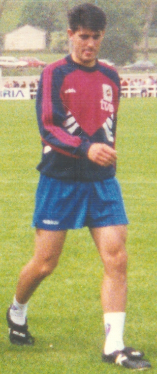 Ex-footballer José Luis Caminero during a training session.